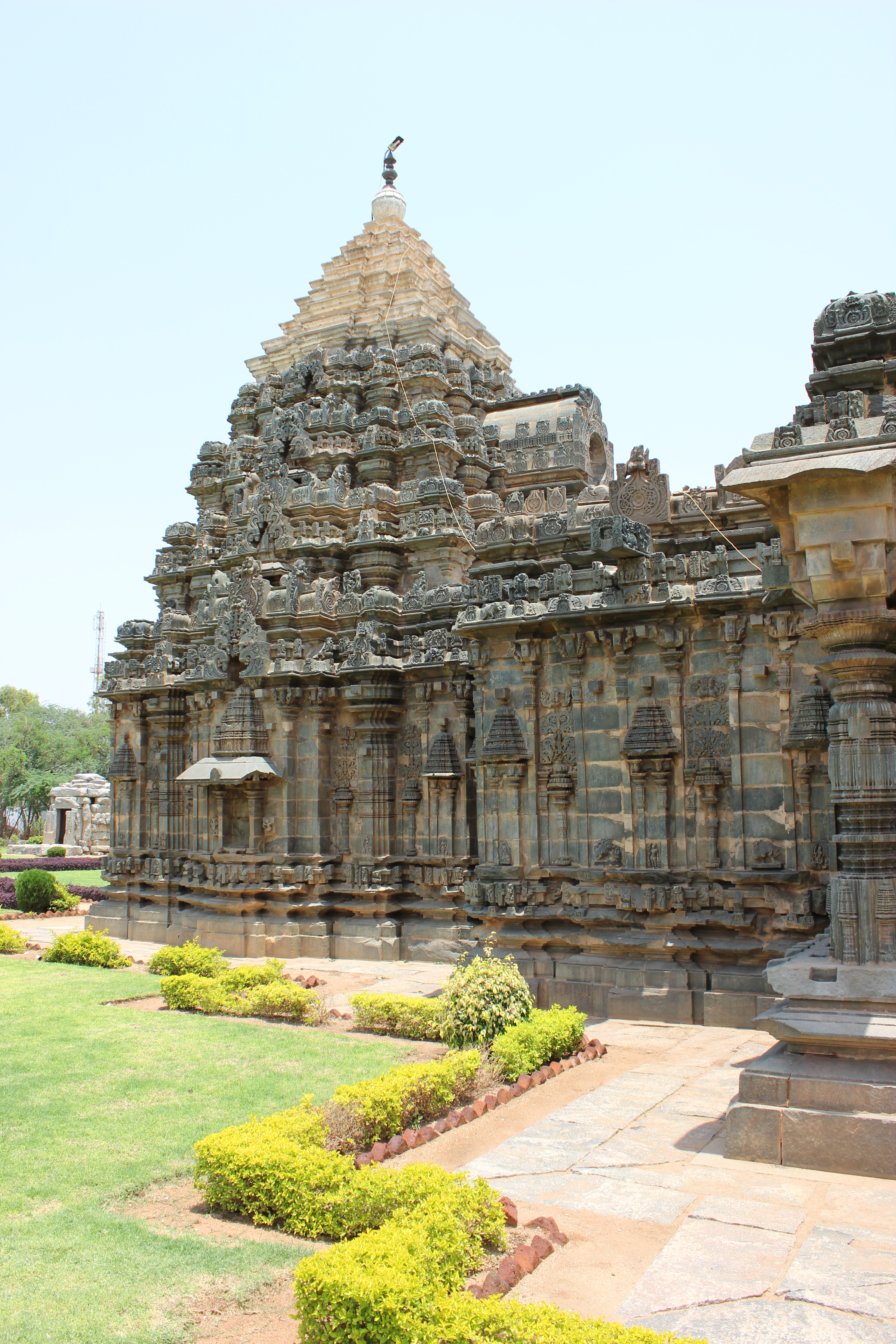 This photograph was taken by me at the the Mahadeva Temple at Itagi (or Ittagi) in the Koppal district of Karnataka state, India. Called Devalaya Chakravarti ("emperor among temples") in inscriptions It was built circa 1112 CE by Mahadeva, a commander (dandanayaka) in the army of the Western (Kalyani) Chalukya King Vikramaditya VI.